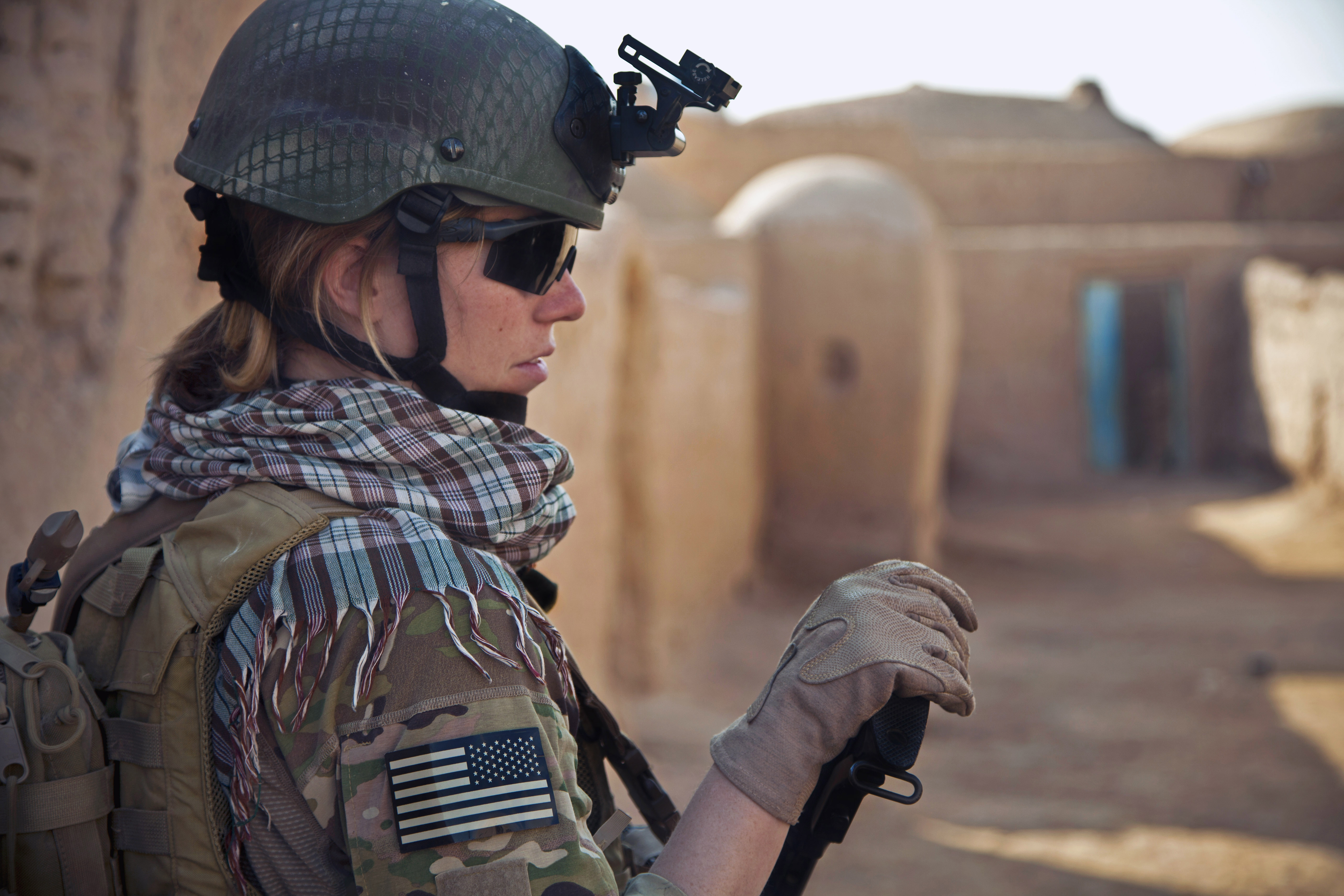 A coalition force member maintains security during a presence patrol in the Farah province of Afghanistan on Dec. 15, 2012. Coalition members participating in the patrol are training and mentoring Afghan National Security Forces members in the area.